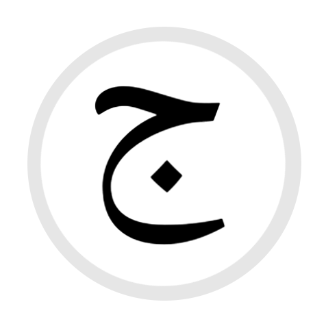 HS Letter (arabic alphabet)